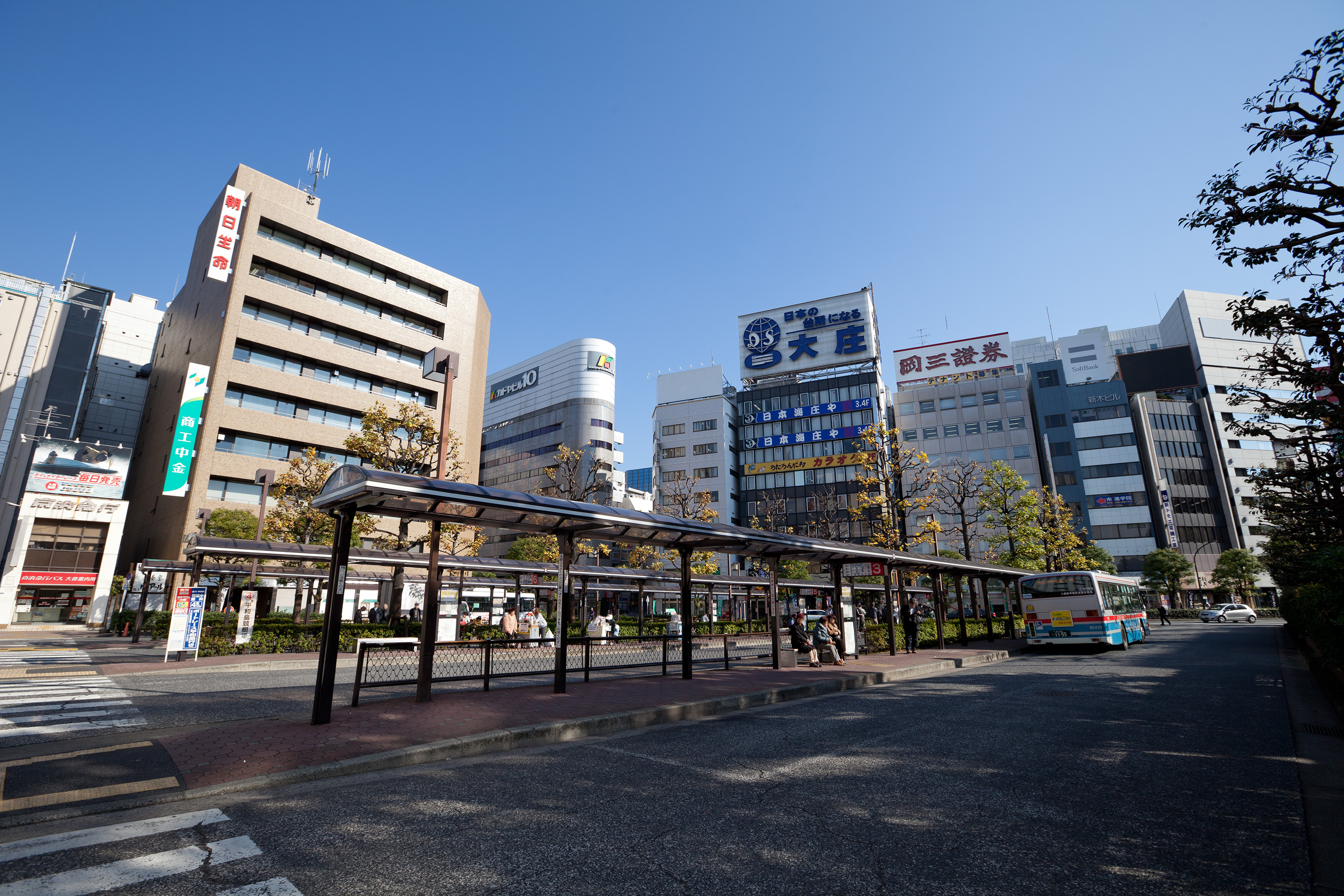 Bus station at the East Exit of Omori station